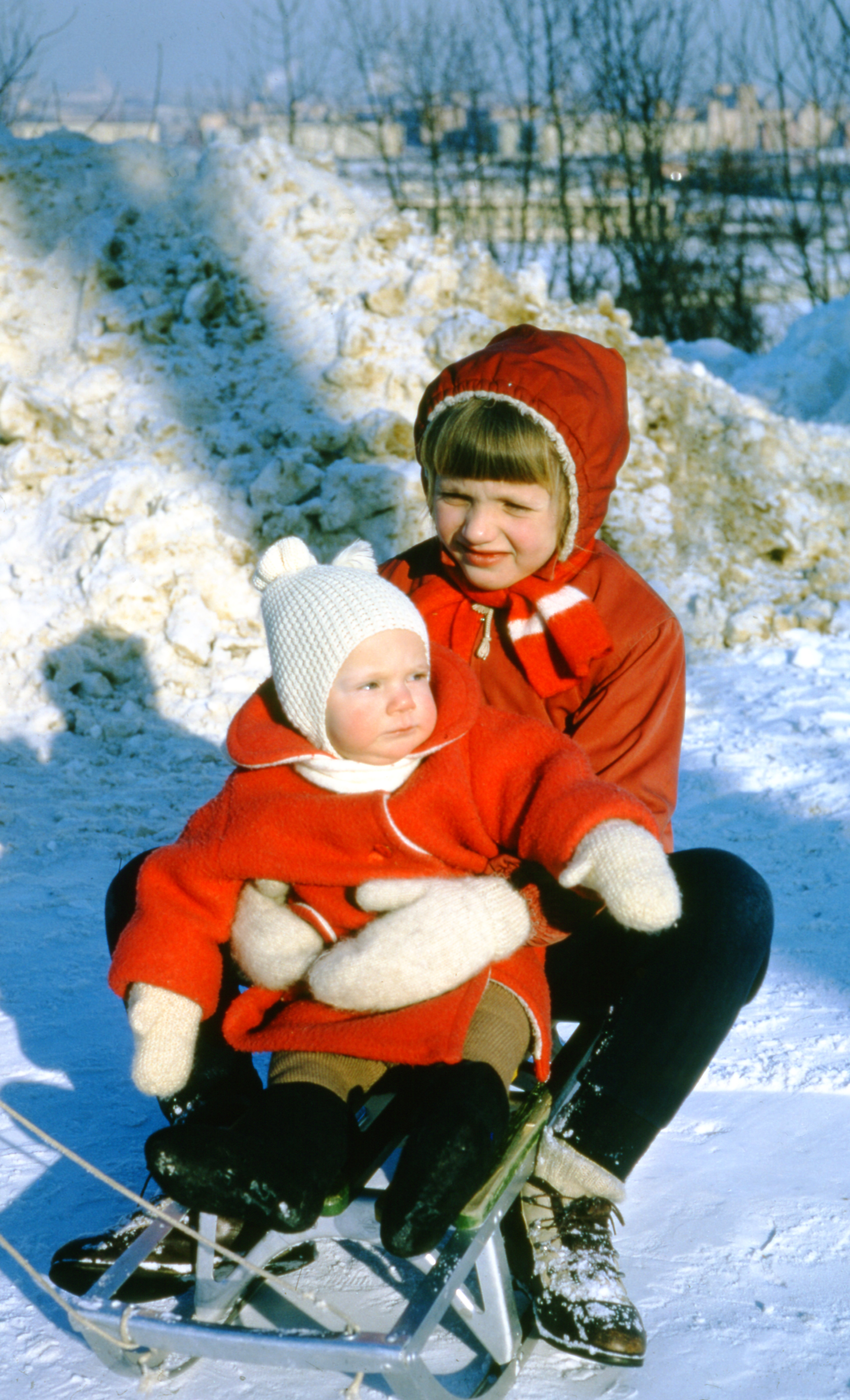 These photos were taken by Thomas T. Hammond during his trip to the Soviet Union. This image features a girl and her sibling on a sled.